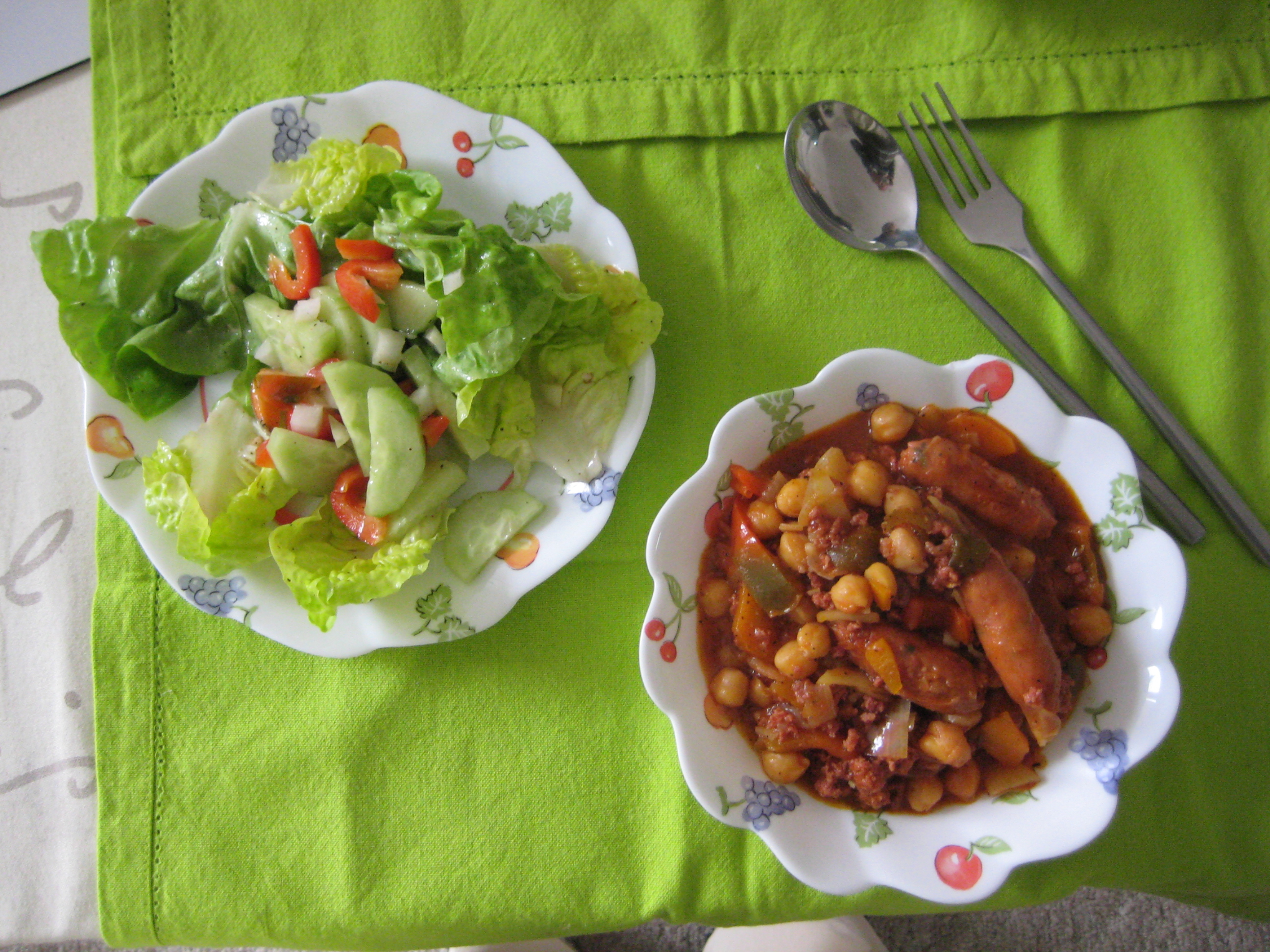 Chorizo stew with salad